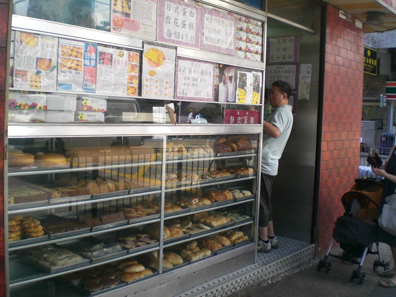 豪華餅家, 衙前圍道, A famous cake shop, Nga Tsin Wai Road, Kowloon City.